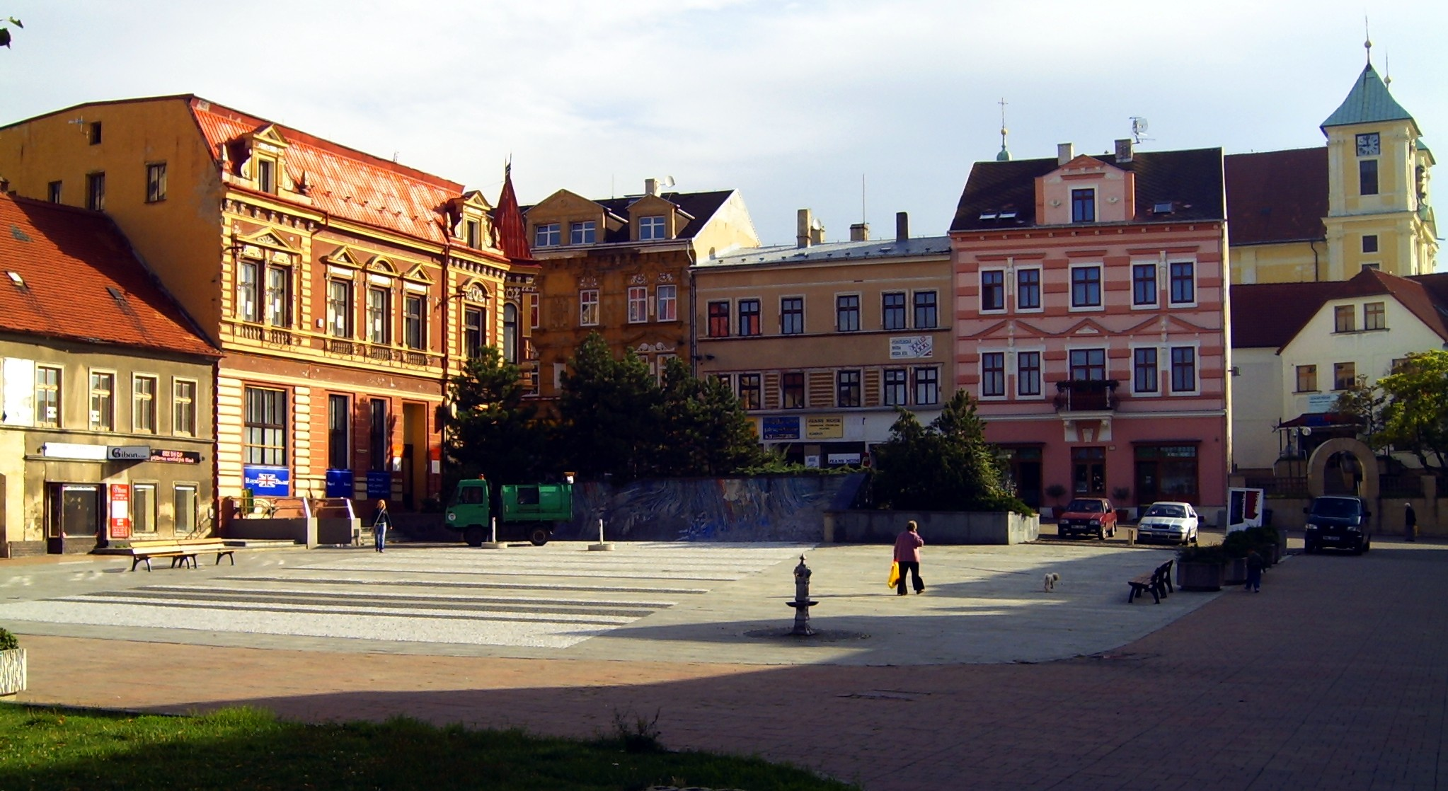 Litvínov. selbst fotografiert 25.8.2006